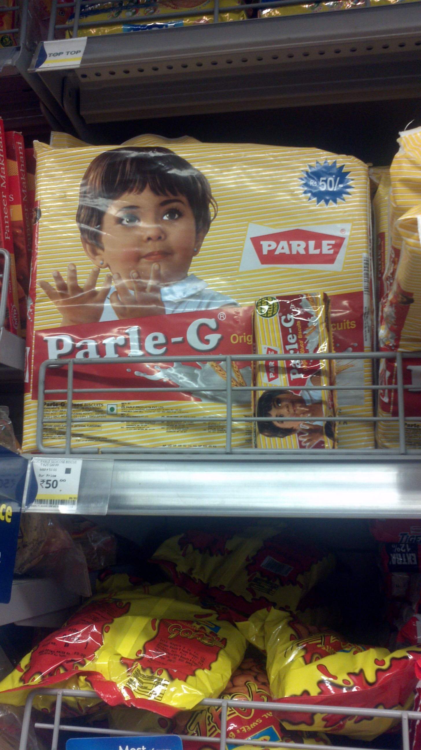 Parle-G is a brand of biscuits manufactured by Parle Products in India. As of 2011, it is the largest selling brand of biscuits in the world according to Nielsen.